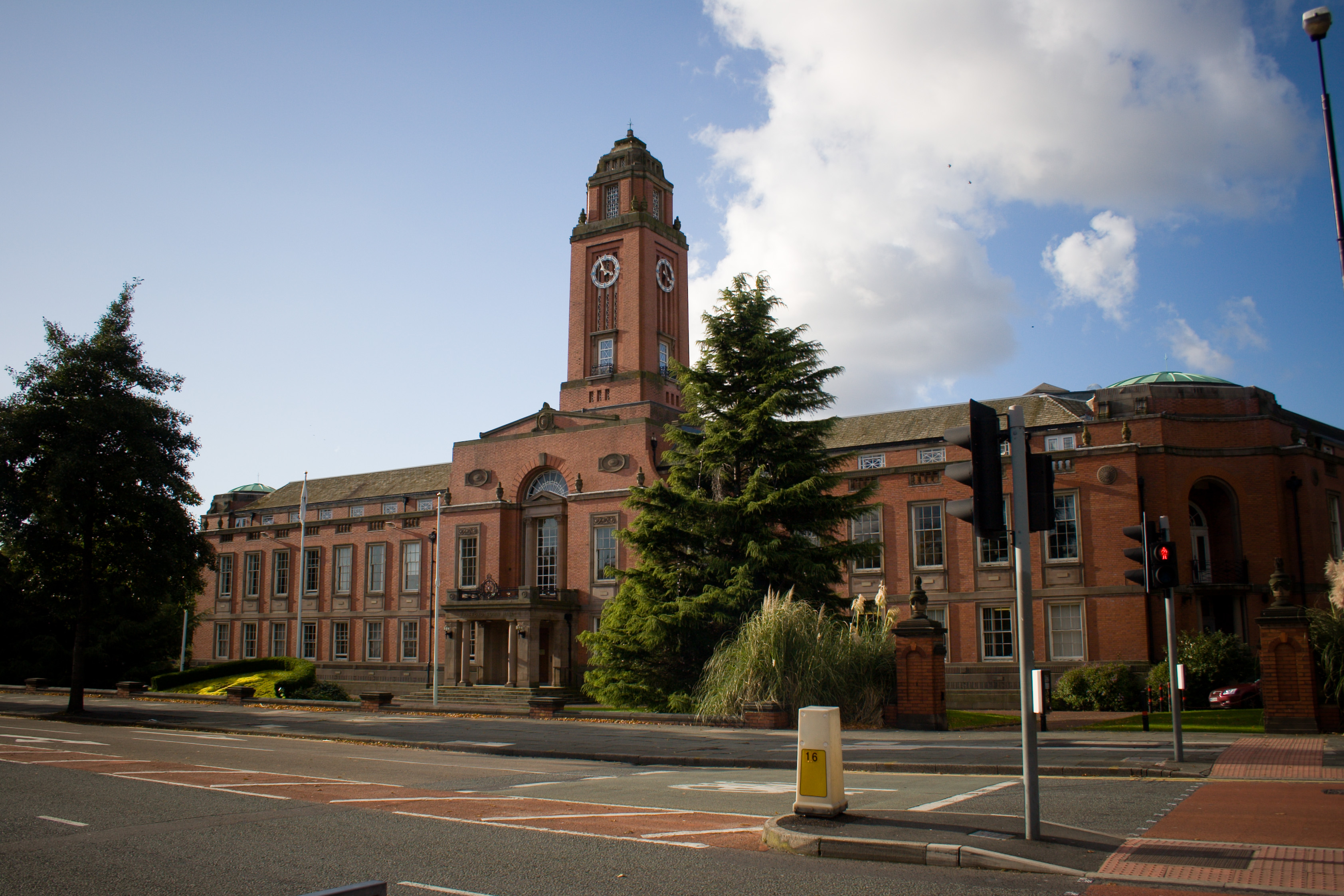 Trafford Town Hall